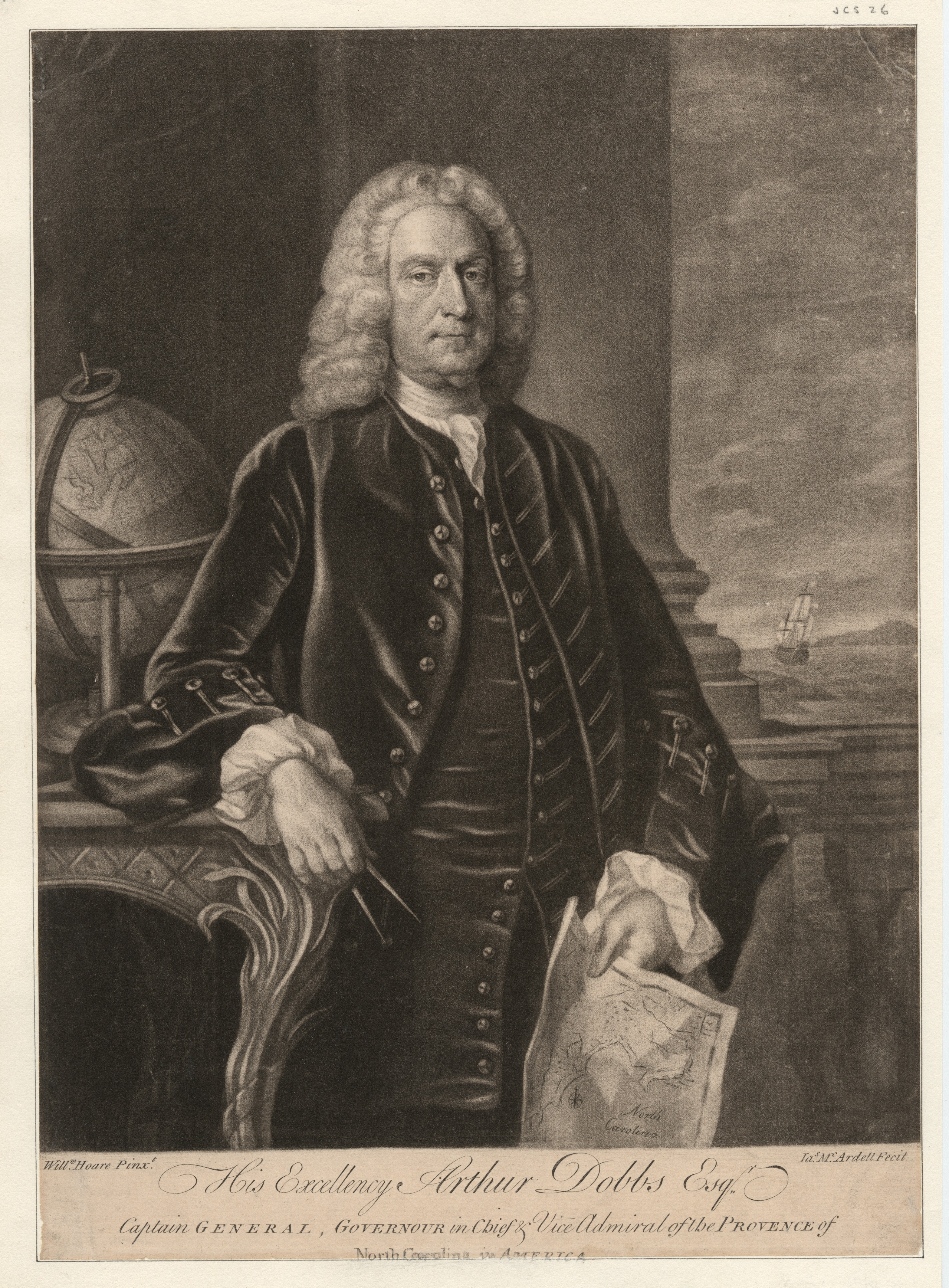 Printmakers include James McArdell, Benson John Lossing and Charles Spooner. Draughtsmen include David McNeely Stauffer. Title from Calendar of Emmet Collection. Citation/reference : EM37